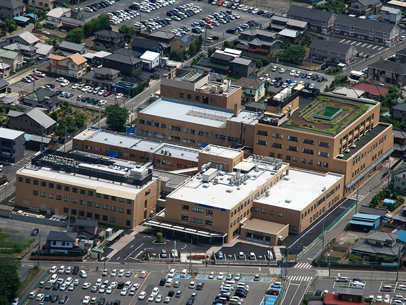 病院全景写真